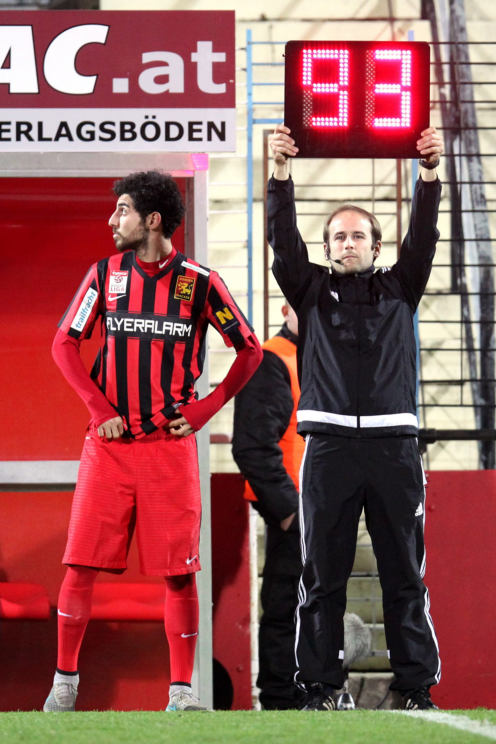 Match of the Austrian Football Bundesliga – FC Admira Wacker Mödling (red shirts) vs. SK Rapid Wien (white shirts) 2-1 (0-1) on 2015-12-02 in Bundesstadion Sudstadt – The photo shows the forth official Walter Altmann (right) and Ilter Ayyildiz (left).